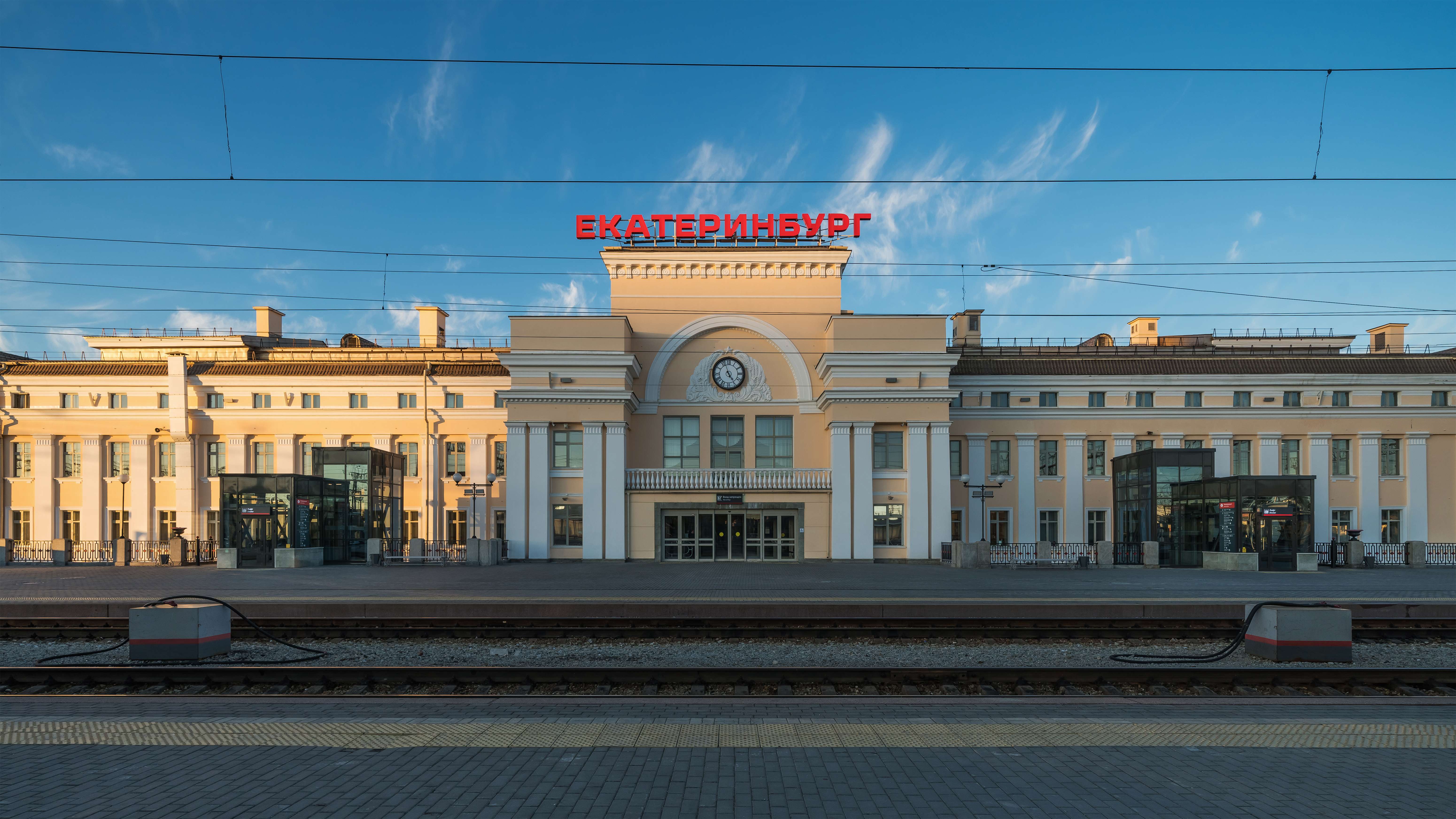 Ekb-Passazhirsky railway station in Ekaterinburg, Russia